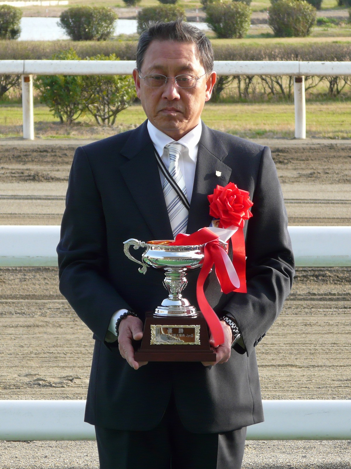 Shigeki-Matsumoto20100317